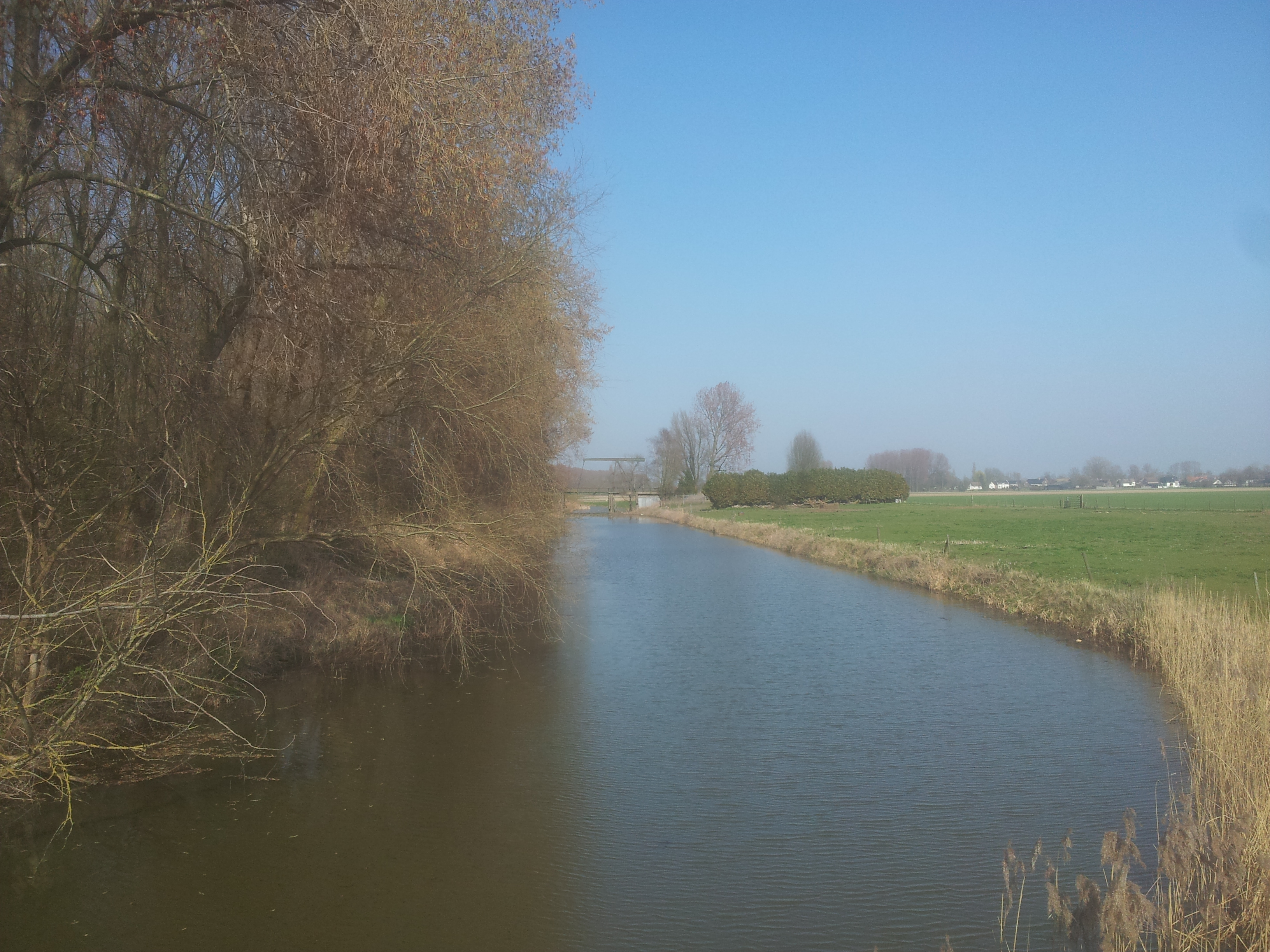 The Oostkil near Hank, Netherlands